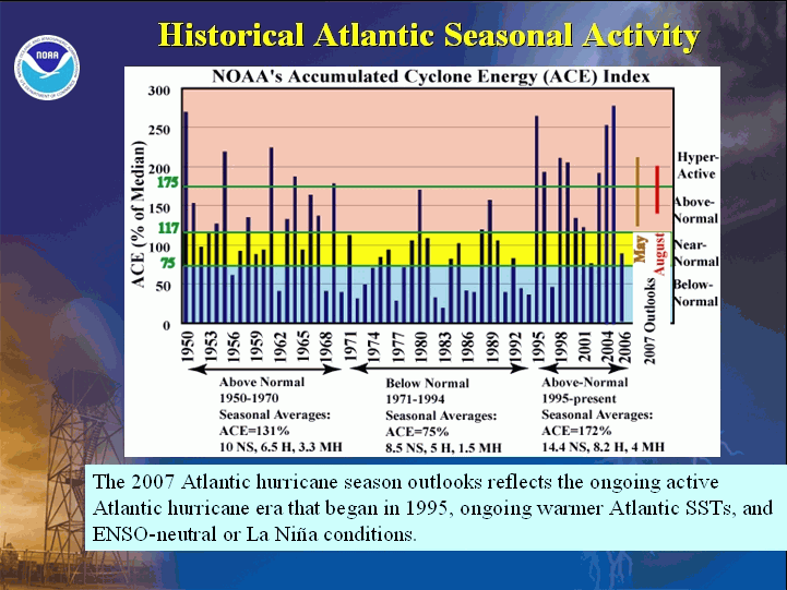 A chart showing the historical averages and statistics for Atlantic hurricane seasons